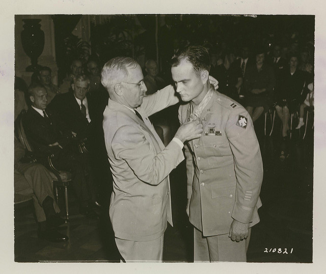 Photograph of Jack L. Treadwell receiving the Medal of Honor from President Harry S. Truman